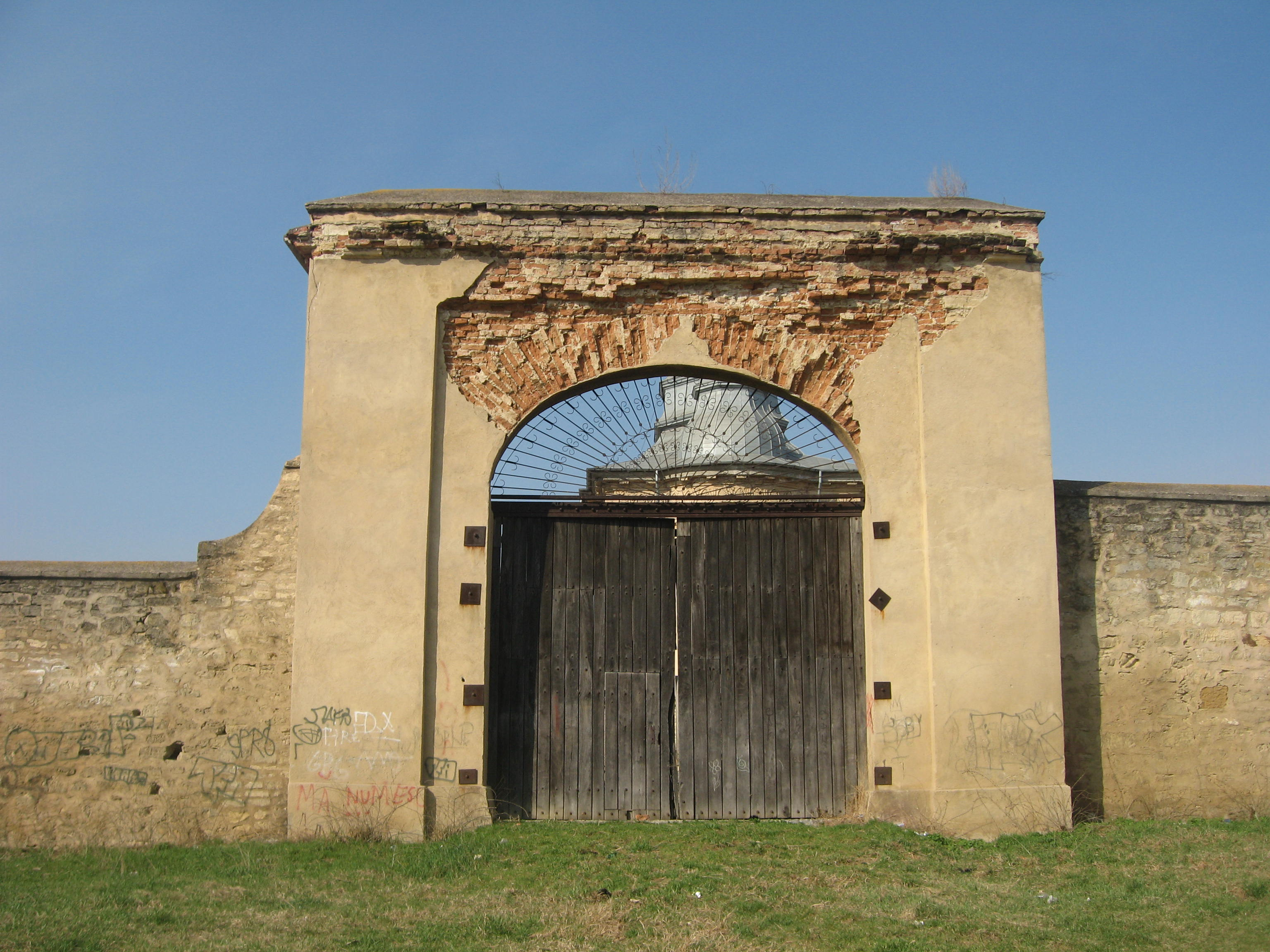 Frumoasa Monastery, Iași, Romania